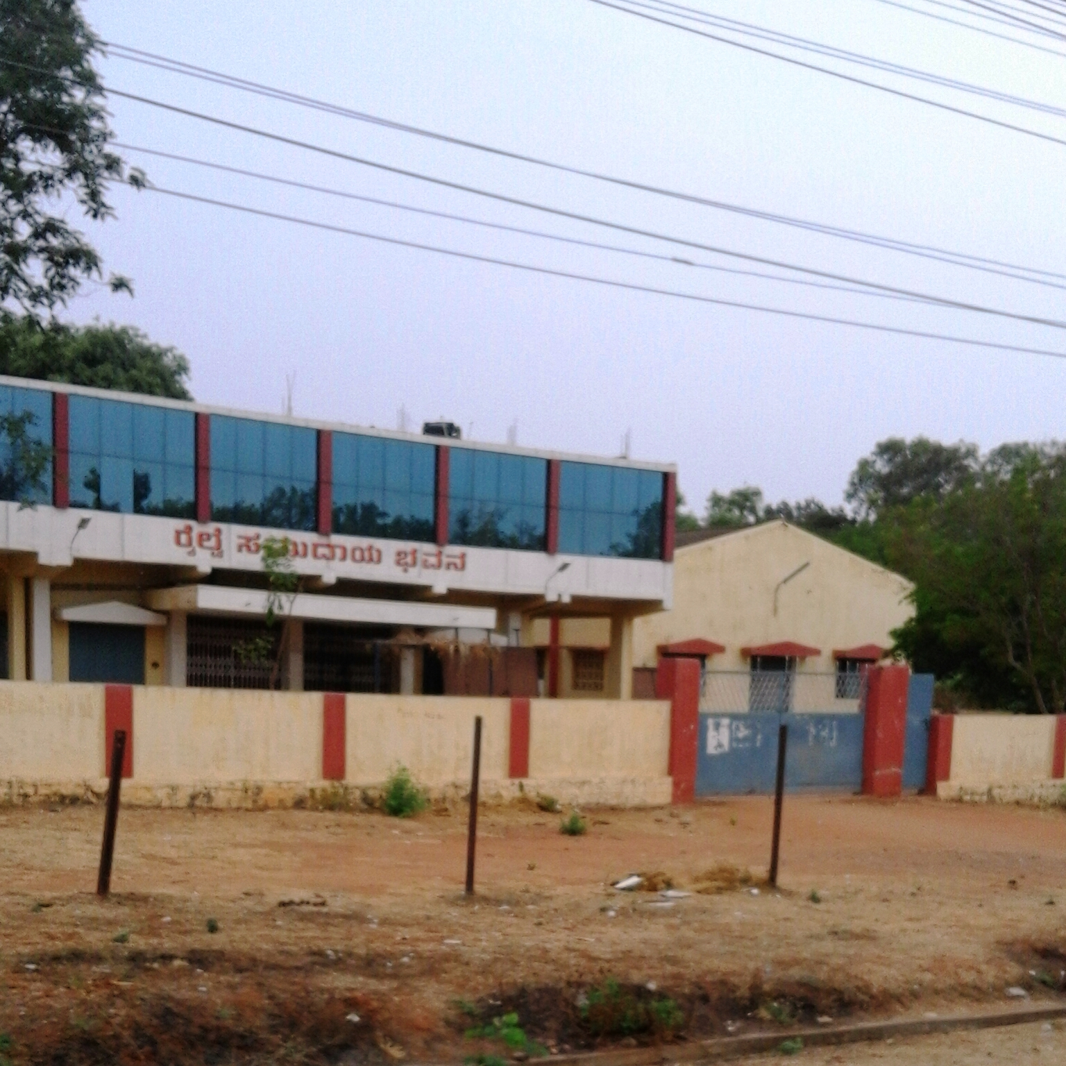 Mananthavady Road, Mysore district, Karnataka province, India.